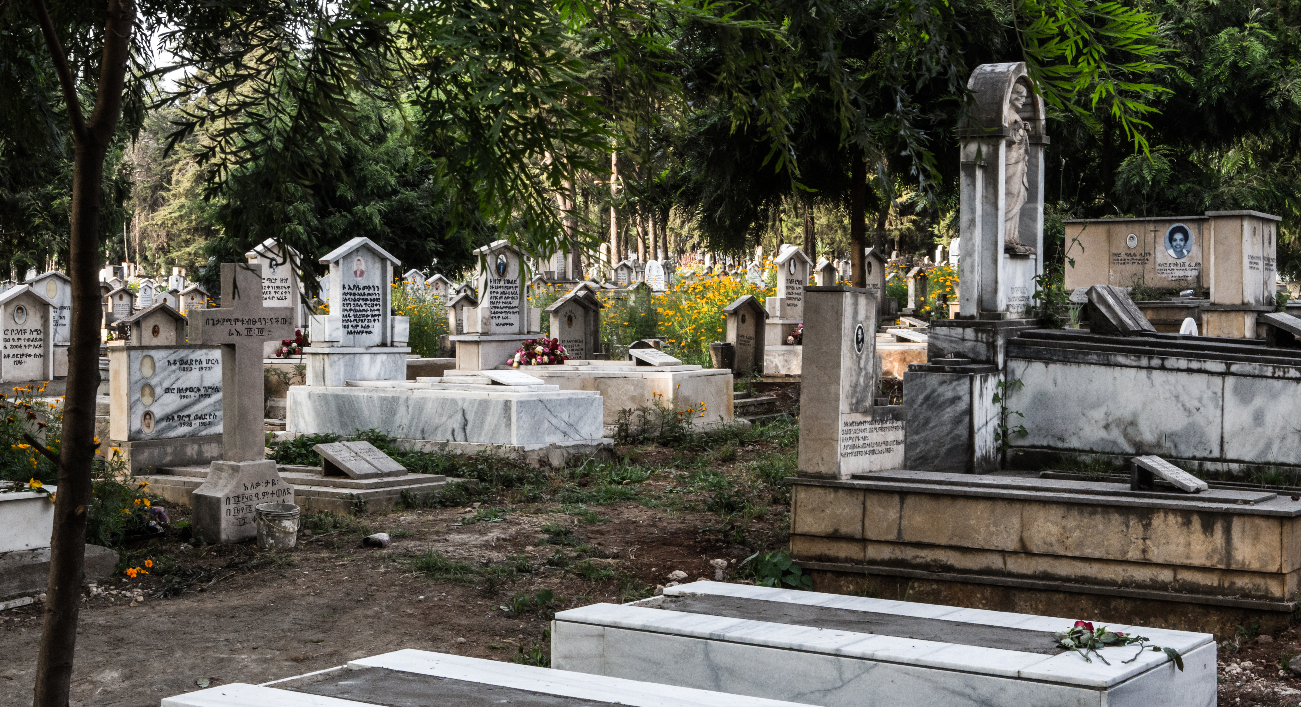 Ferenji cemetery in Addis Abeba, the international part.